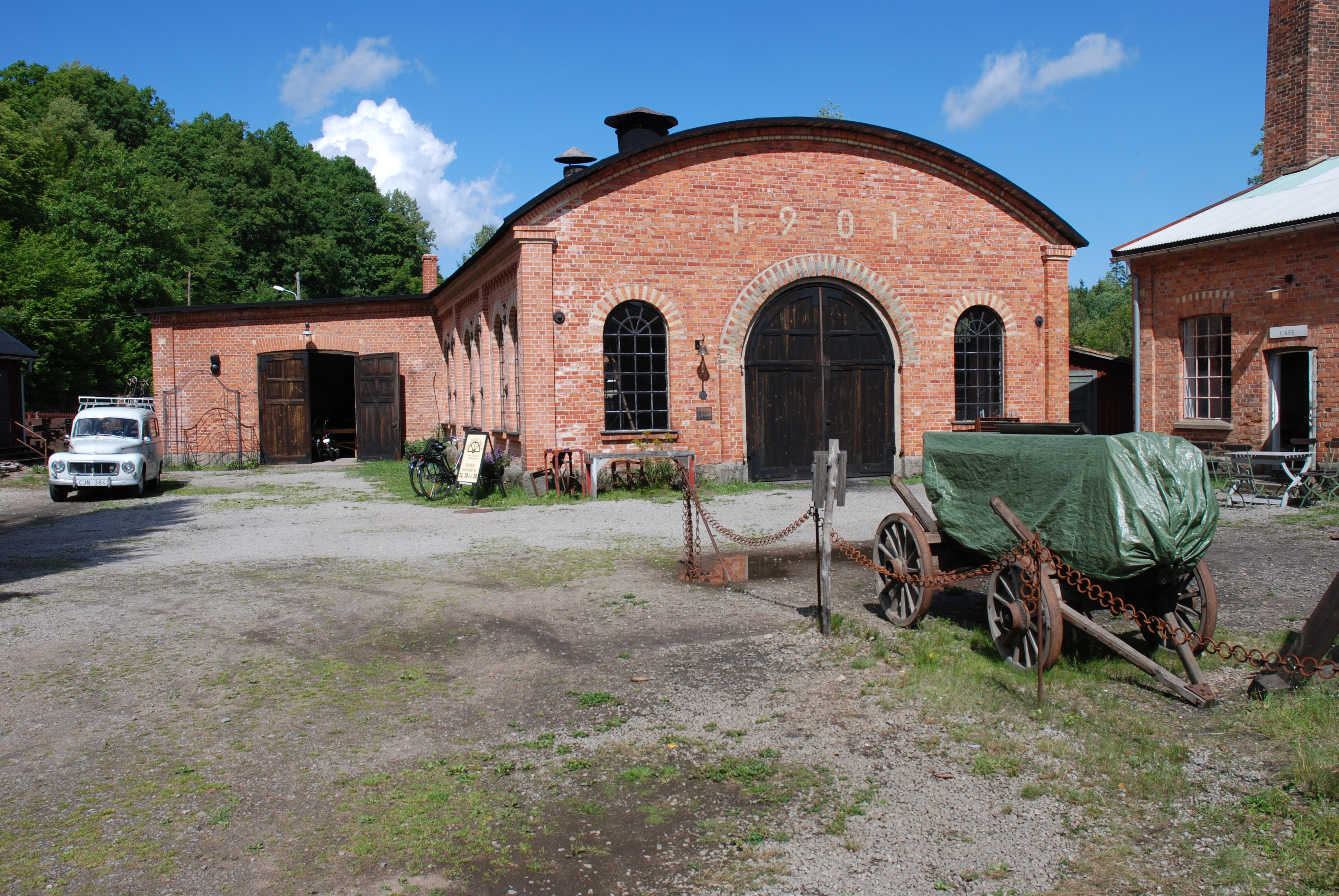 Ebbamala Bruk, industrial heritage in Sweden. Ebbamala is a former iron foundry and mechichical workshop, open to the public as a living museum.